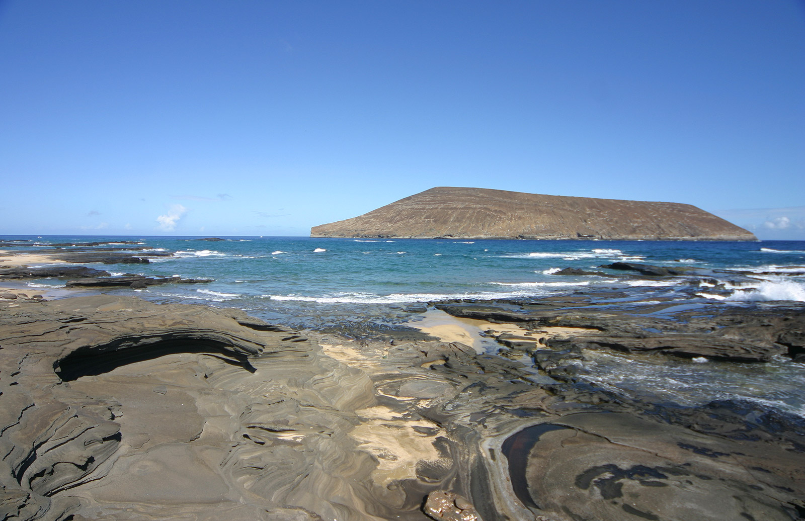 View of Lehua Islet from Niihau beach